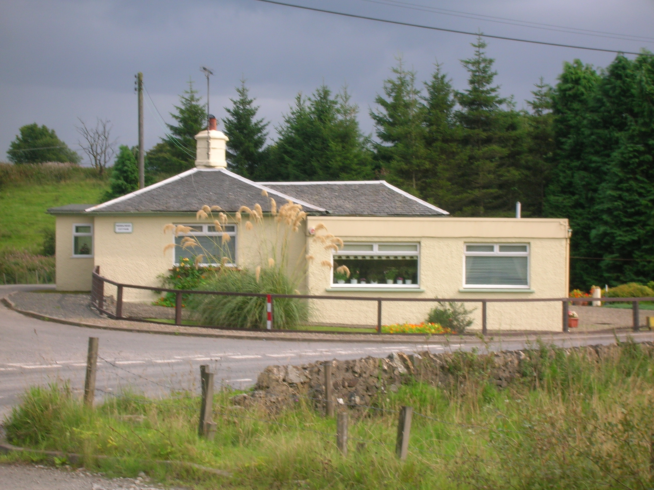 Hessilhead Lodge, Beith, Ayrshire, Scotland.